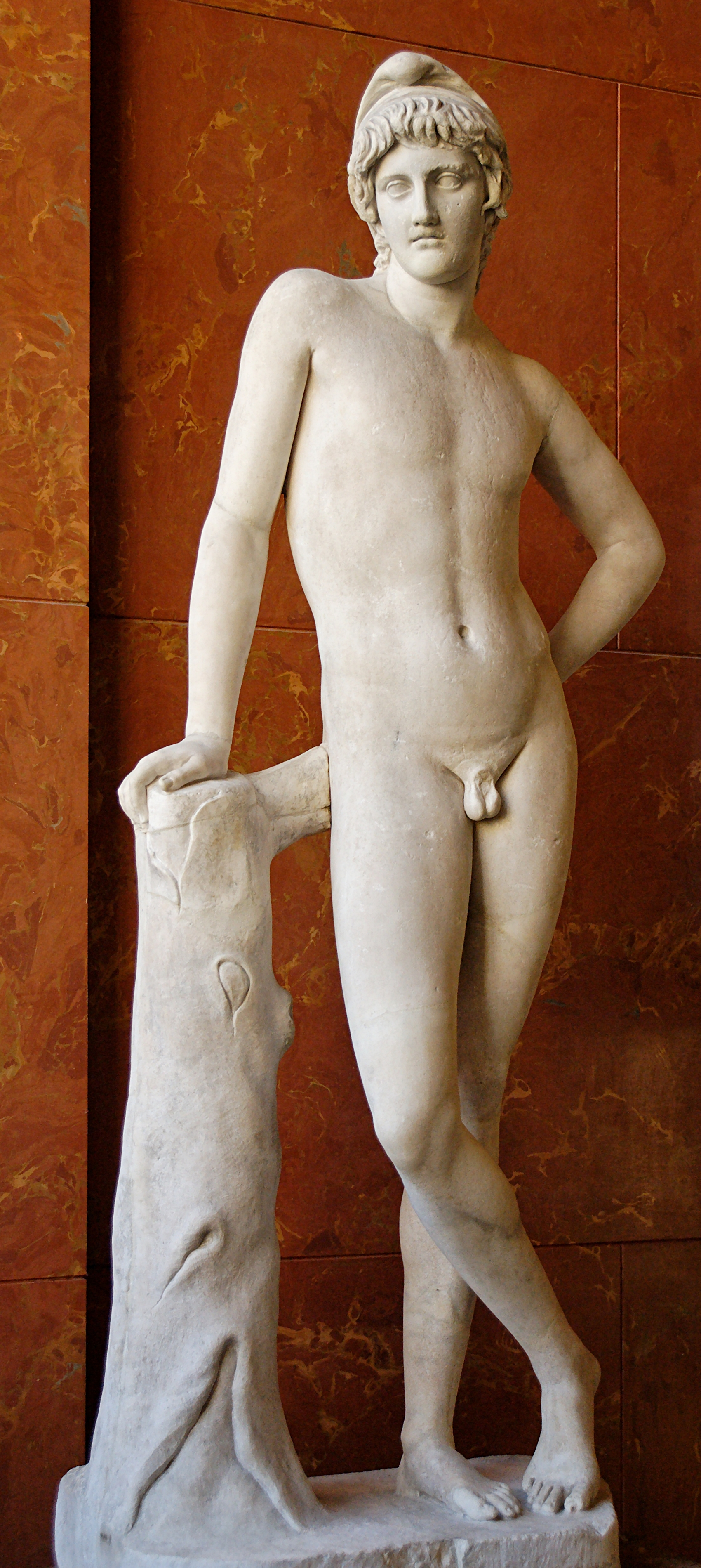 Statue of a youth with Phrygian cap, identified as Paris. Marble, Roman copy from the 2nd century AD after a Greek original. Found by Gavin Hamilton at Villa Adriana in Tivoli, 1769.